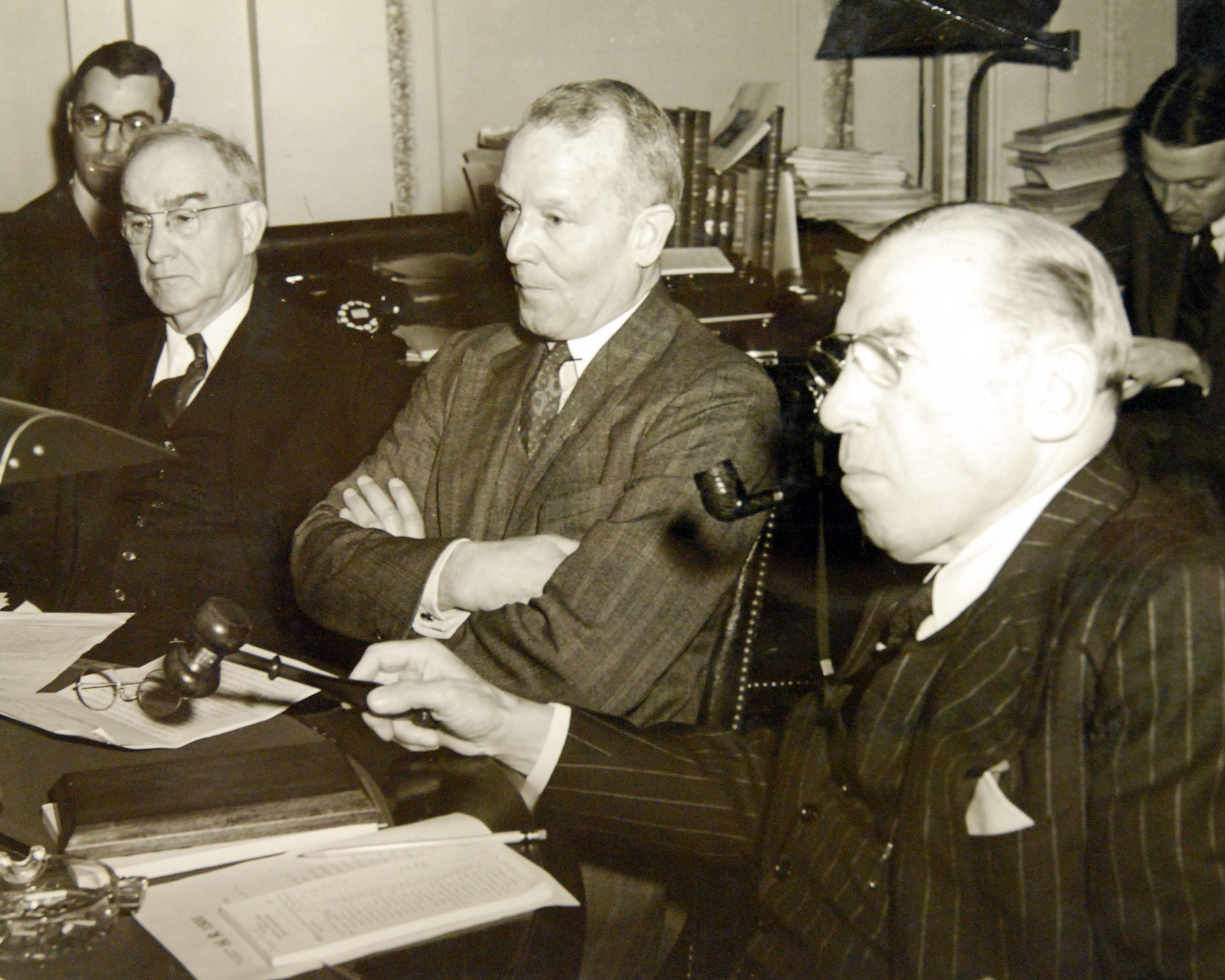 Lot-1952-3: Lend-Lease Hearings, February 1943. Admiral Emory S. Land, War Shipping Administrator, ponders a question of a member of the House Foreign Affairs Committee on the value of the lend lease act to the war effort, at a hearing in Washington. The committee later recommended that the act be continued in effect. Representative Sol Bloom, chairman of the committee, presided. Office of War Information Photograph. Courtesy of the Library of Congress. (2017/05/19).